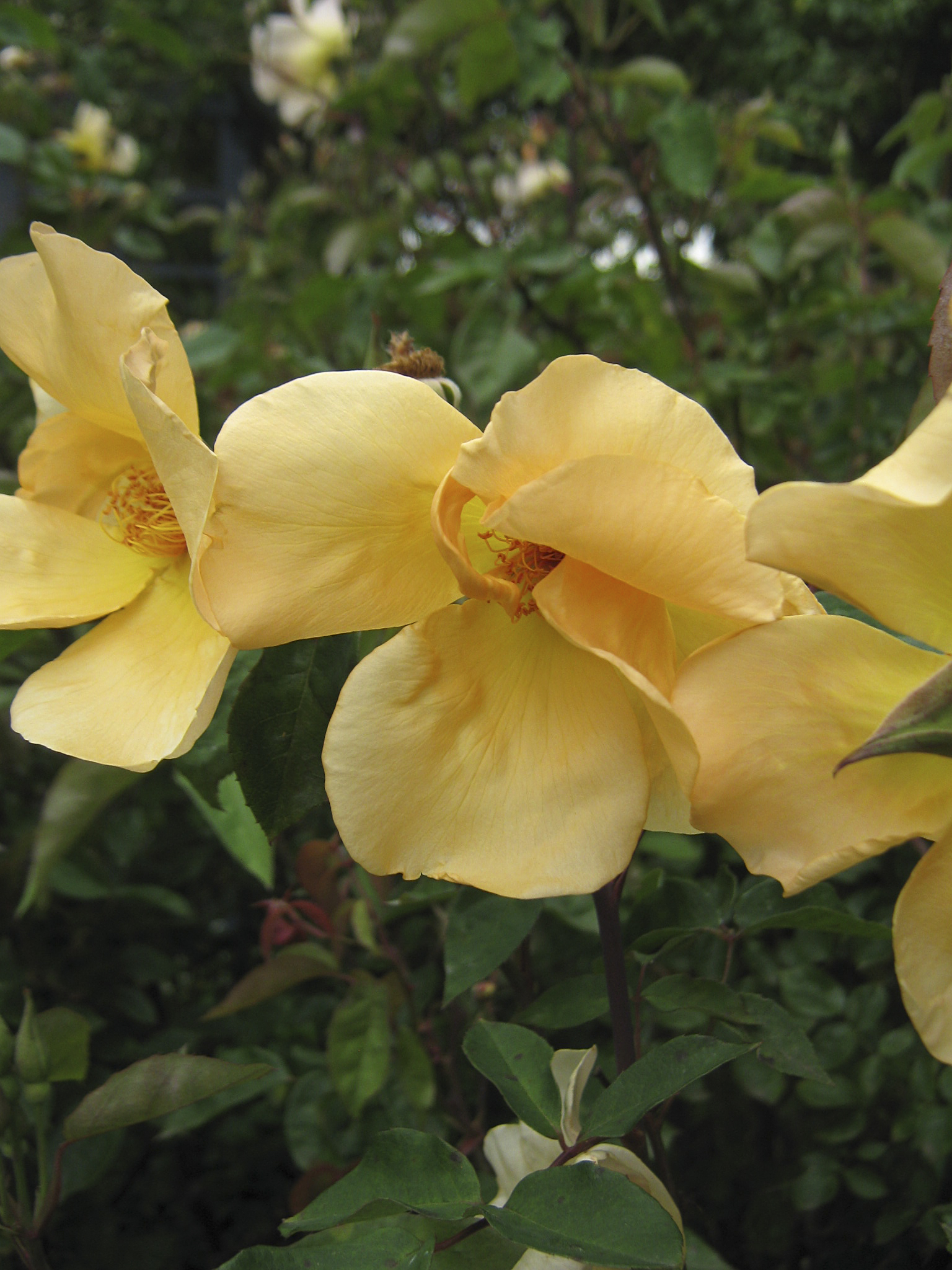 Rose 'Squatter's Dream', Hybrid Gigantea by Alister Clark 1923; Photographed in the Alister Clark Memorial Rose Garden, Bulla, Victoria